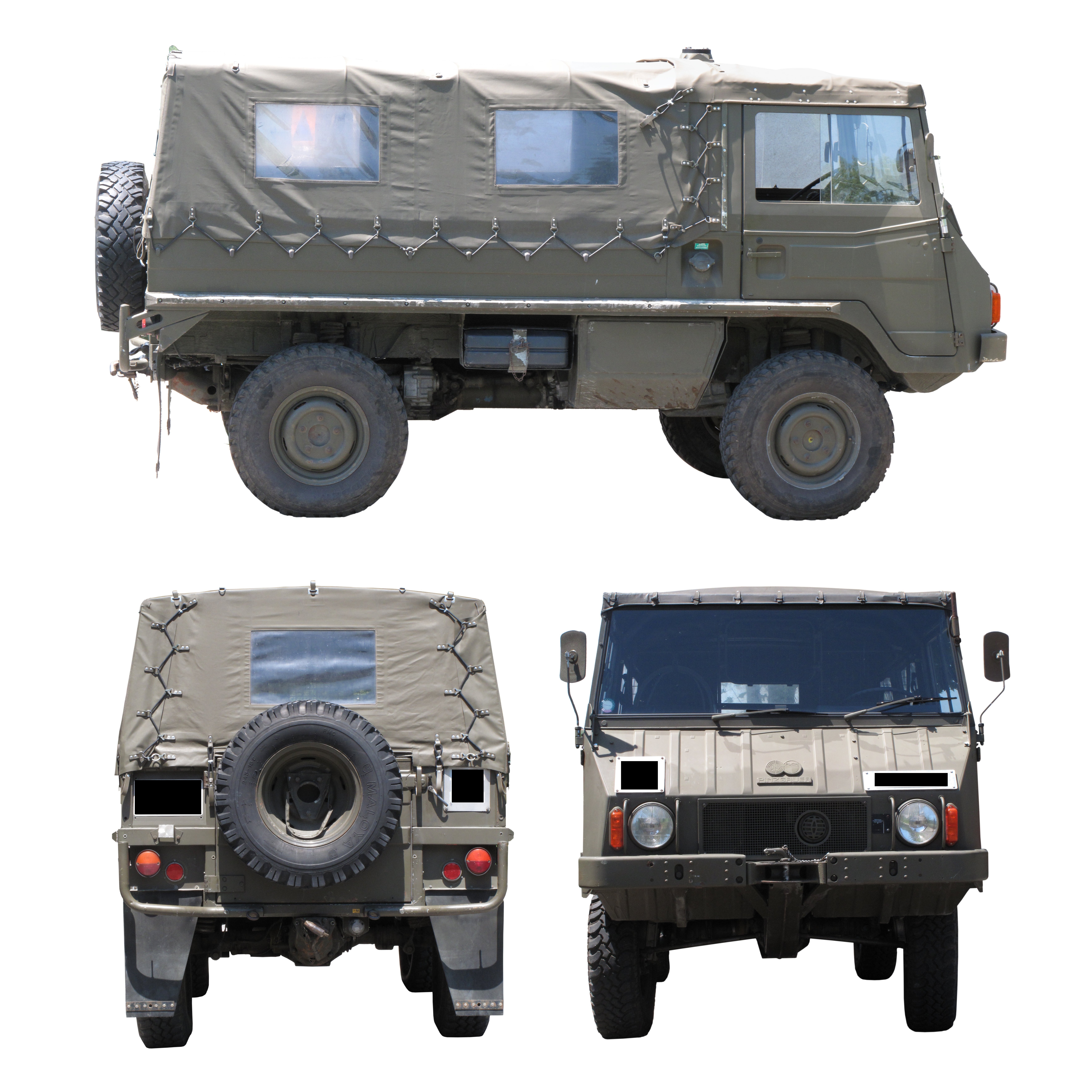 3 views of the Pinzgauer 710M (4x4 troop carrier version)